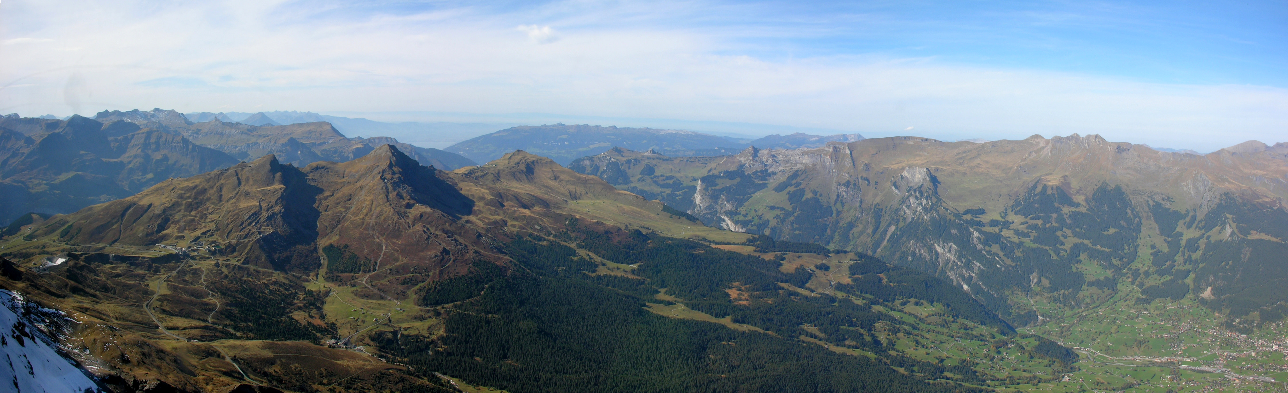 View from Eiger North Face